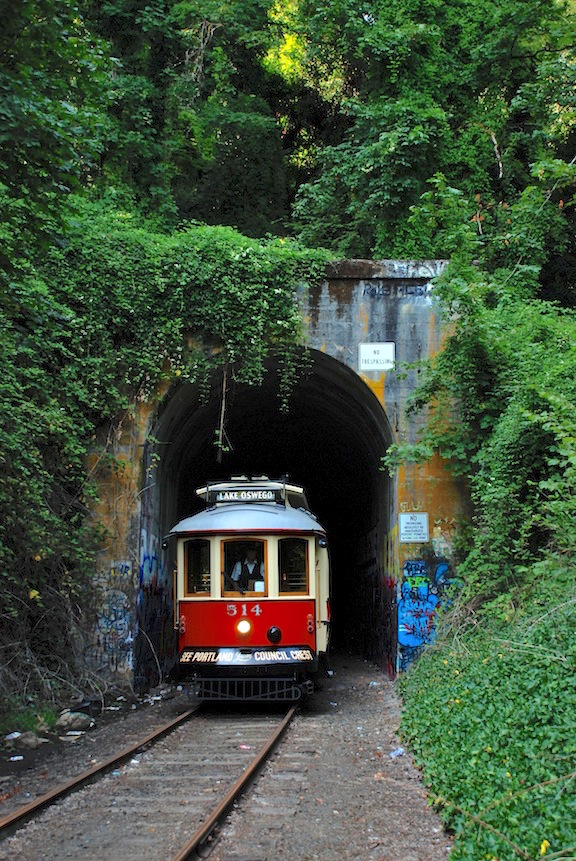 Car 514 of the Willamette Shore Trolley line emerging from Elk Rock Tunnel, headed for Lake Oswego. The tunnel was built in 1921.